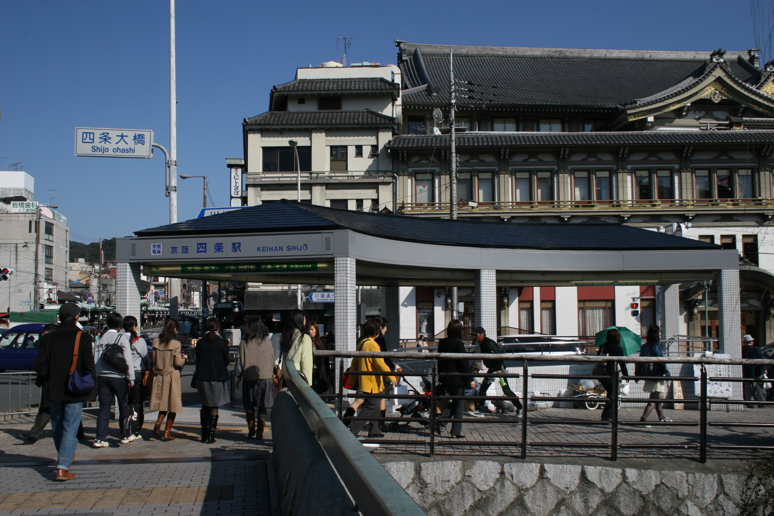 An entrance to Shijo Station on the Keihan Main Line, in front of Minamiza theatre, Higashiyama-ku, Kyoto, Japan